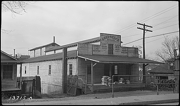 The Greenback Mills building in Greenback, Tennessee, USA, photographed by the Tennessee Valley Authority in 1942 as part of the Fort Loudoun Dam project. The photograph was originally titled "Greenback Mill, 1942." ARC identifier 281465.